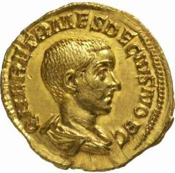 Herennius Etruscus as Caesar, 250 - 251, Aureus circa 251, 3.44 g. Q HER ETR MES DECIVS NOB C Bare-headed and draped bust right. RIC 147a. C 25. Vagi 2204. Calicó 3311.